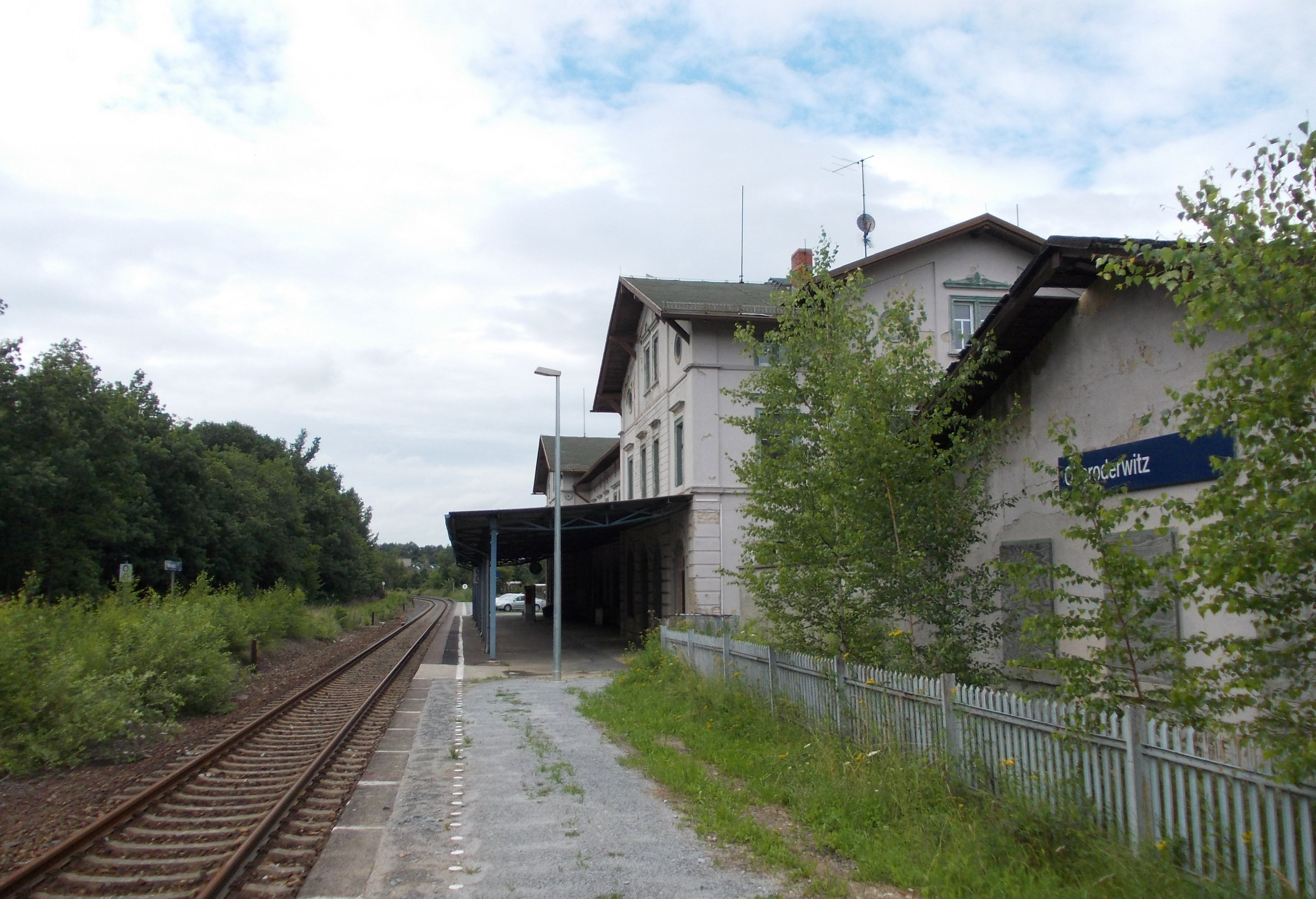 Oberoderwitz station (Oderwitz, Görlitz district, Saxony), platform at the Zittau-Bischofswerda railway line